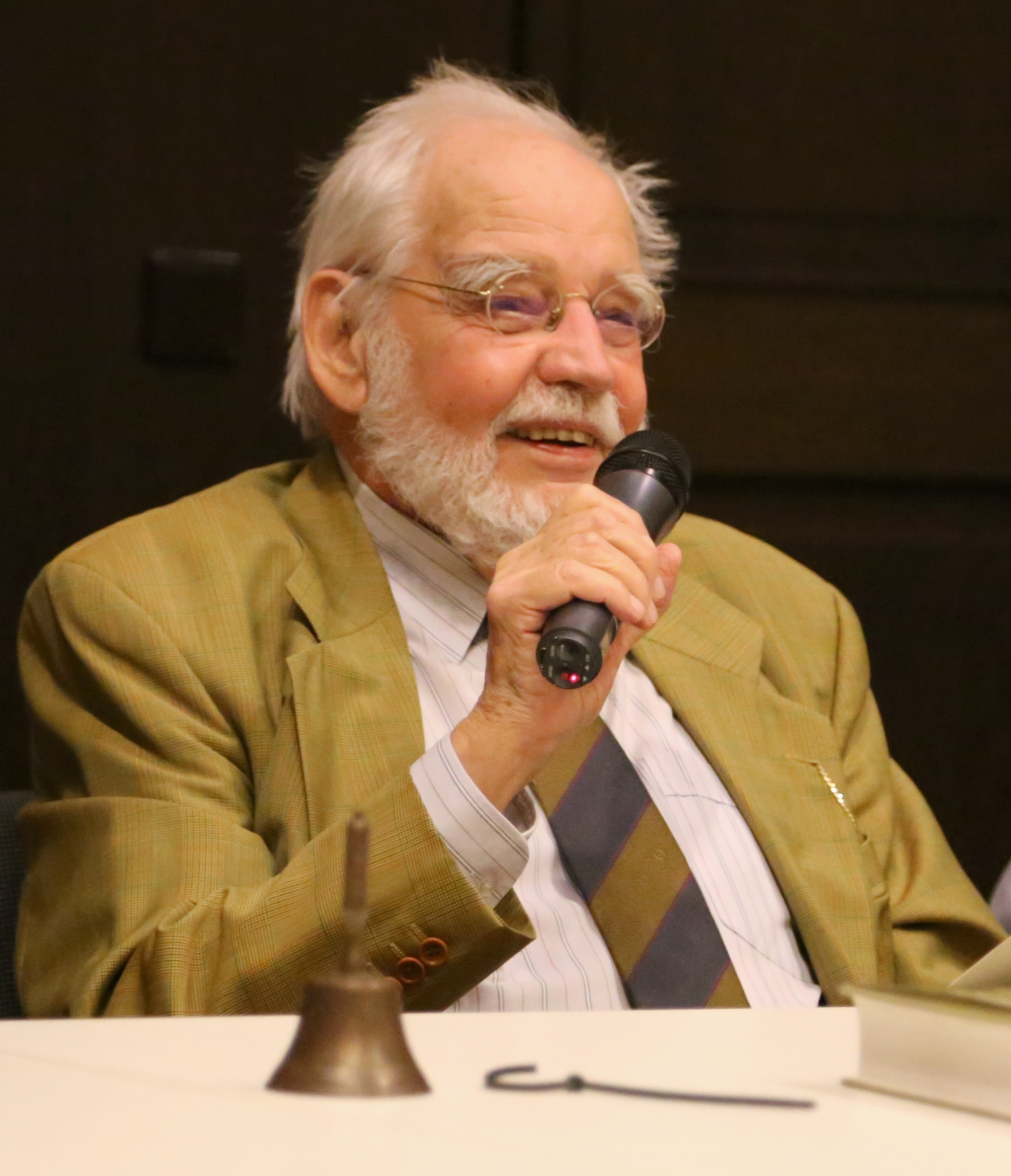 German author Rainer Schepper at Haus Telsemeyer in Mettingen, Kreis Steinfurt, North Rhine-Westphalia, Germany.